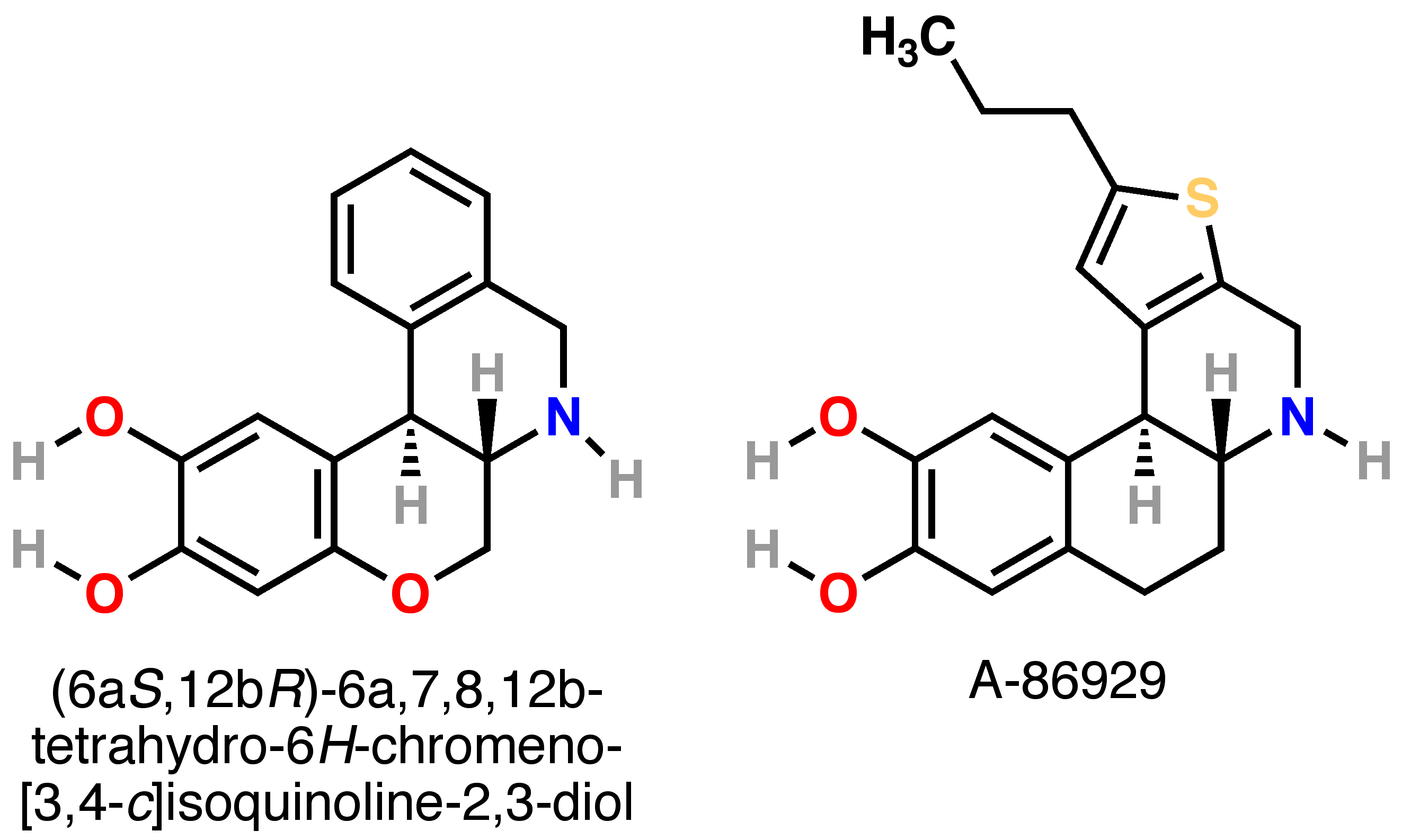 Created myself using Cambridgesoft ChemDraw